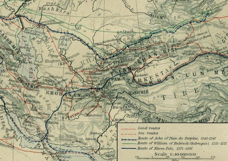 Mediaeval trade routes in central Asia. Modified map based on Sheherd Mediaeval Commerce (1923/first edition 1911)